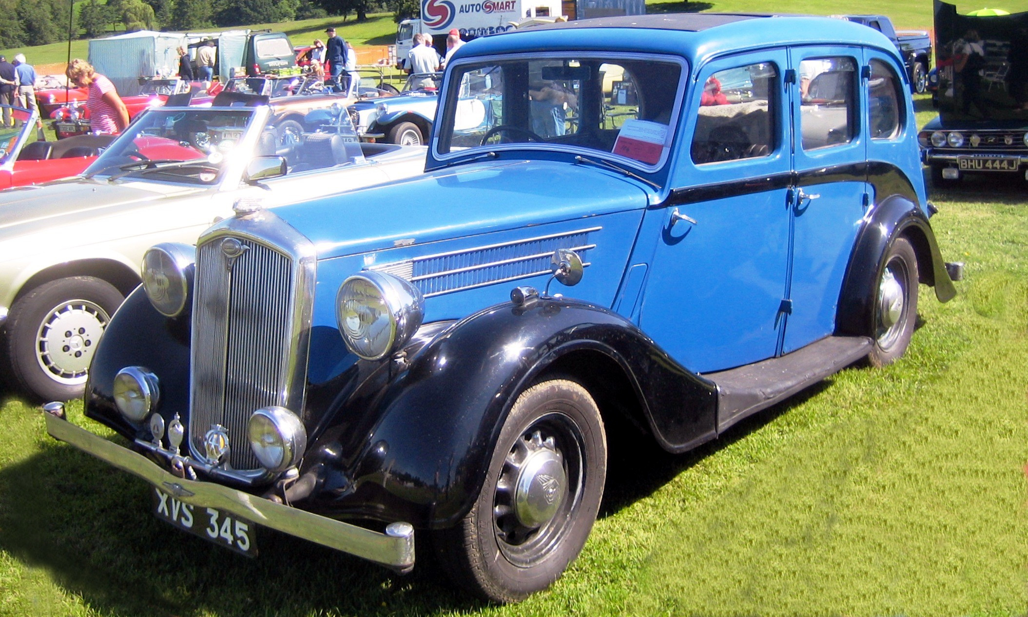 Wolseley 12/48 Series III launched 1938 and reintroduced 1945-8. Essentially this car was a 10/40 with a 6cylinder 1881cc side valve engine in place of the 4cylinder engine. The engine itself and other mechanics came from the Morris 12/4 and were also used in the MG TA Midget.Redsimon (talk) 16:12, 23 September 2008 (UTC)